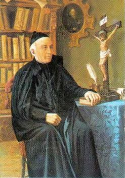 Devotional print with Father Juan Bonal, founder of Sisters of Charity of Saint Anne